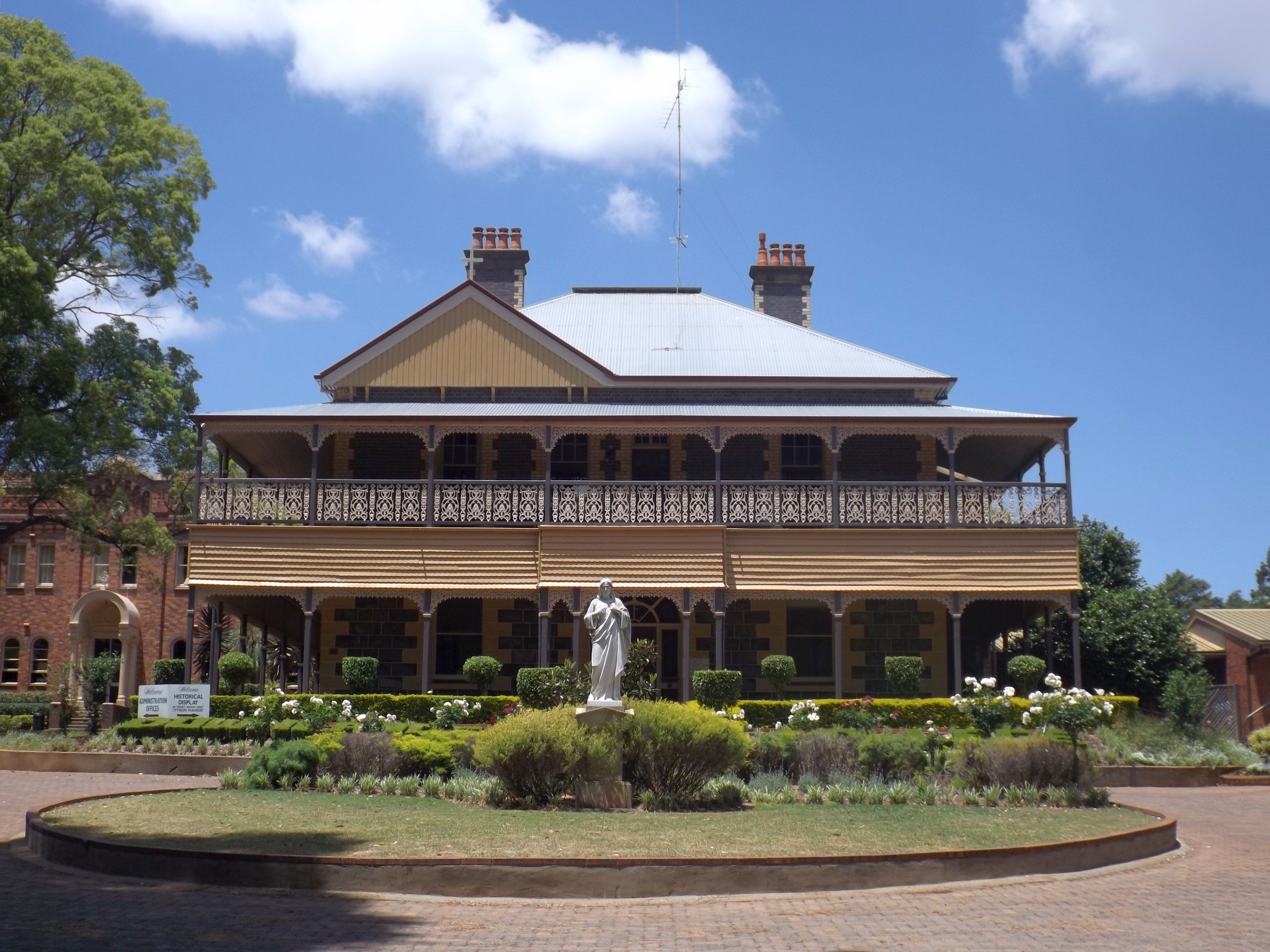 Photo of Tyson Manor on the grounds of Downlands College in Harlaxton, Queensland, Toowoomba, Australia.